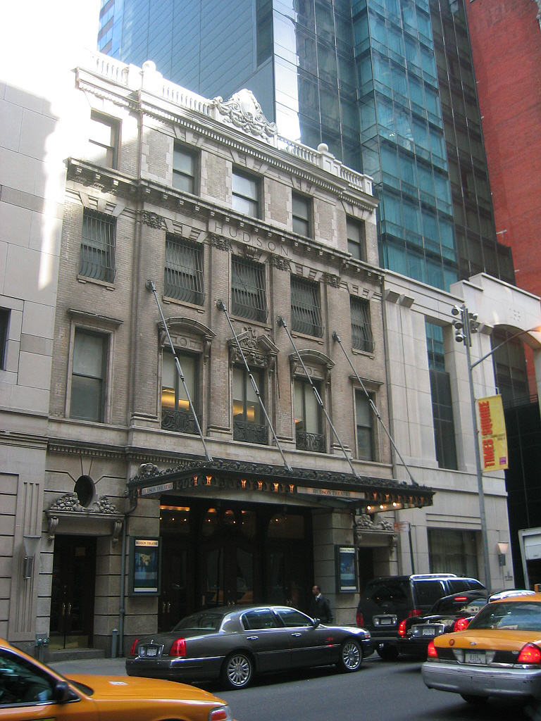 Hudson Theatre at the Millennium Hotel Broadway 139-141 West 44th Street / 135-144 West 145th Street, Manhattan, New York City